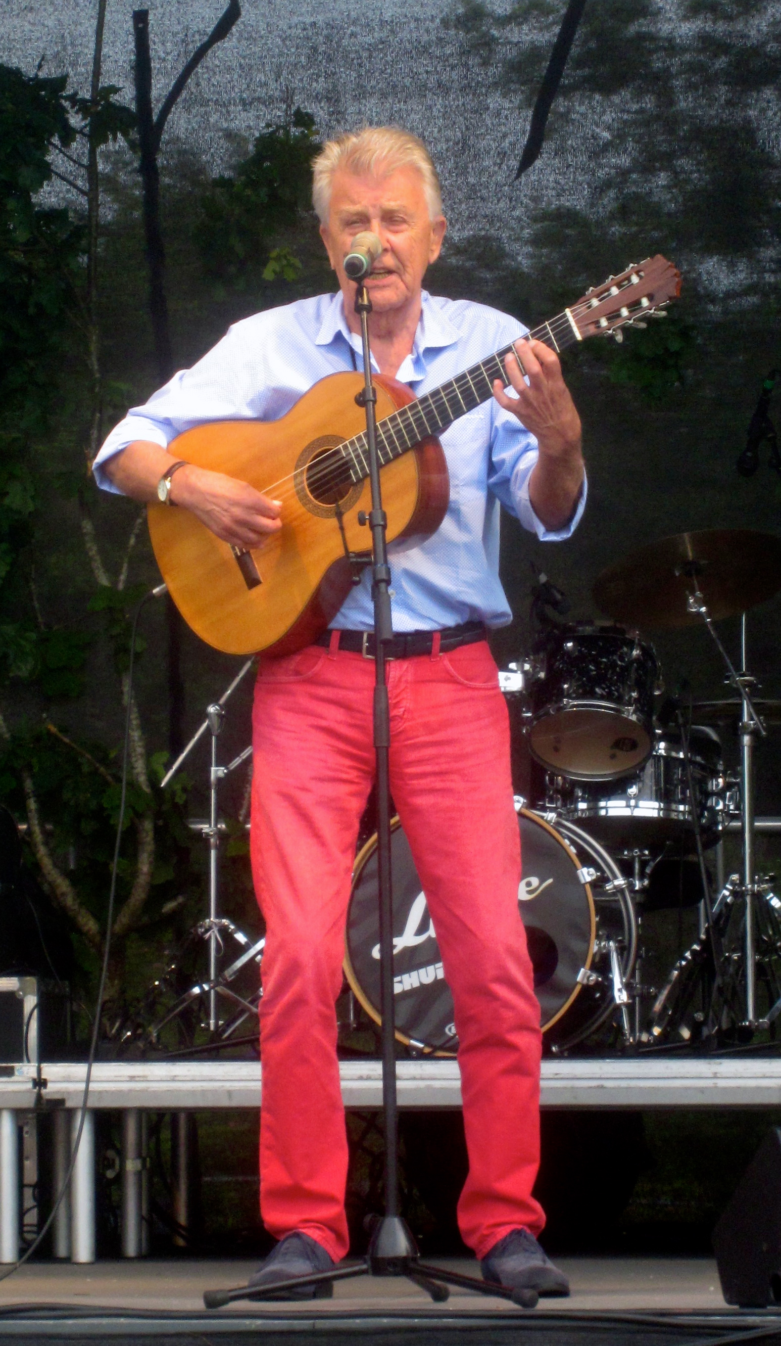 Sven-Bertil Taube, July 2015